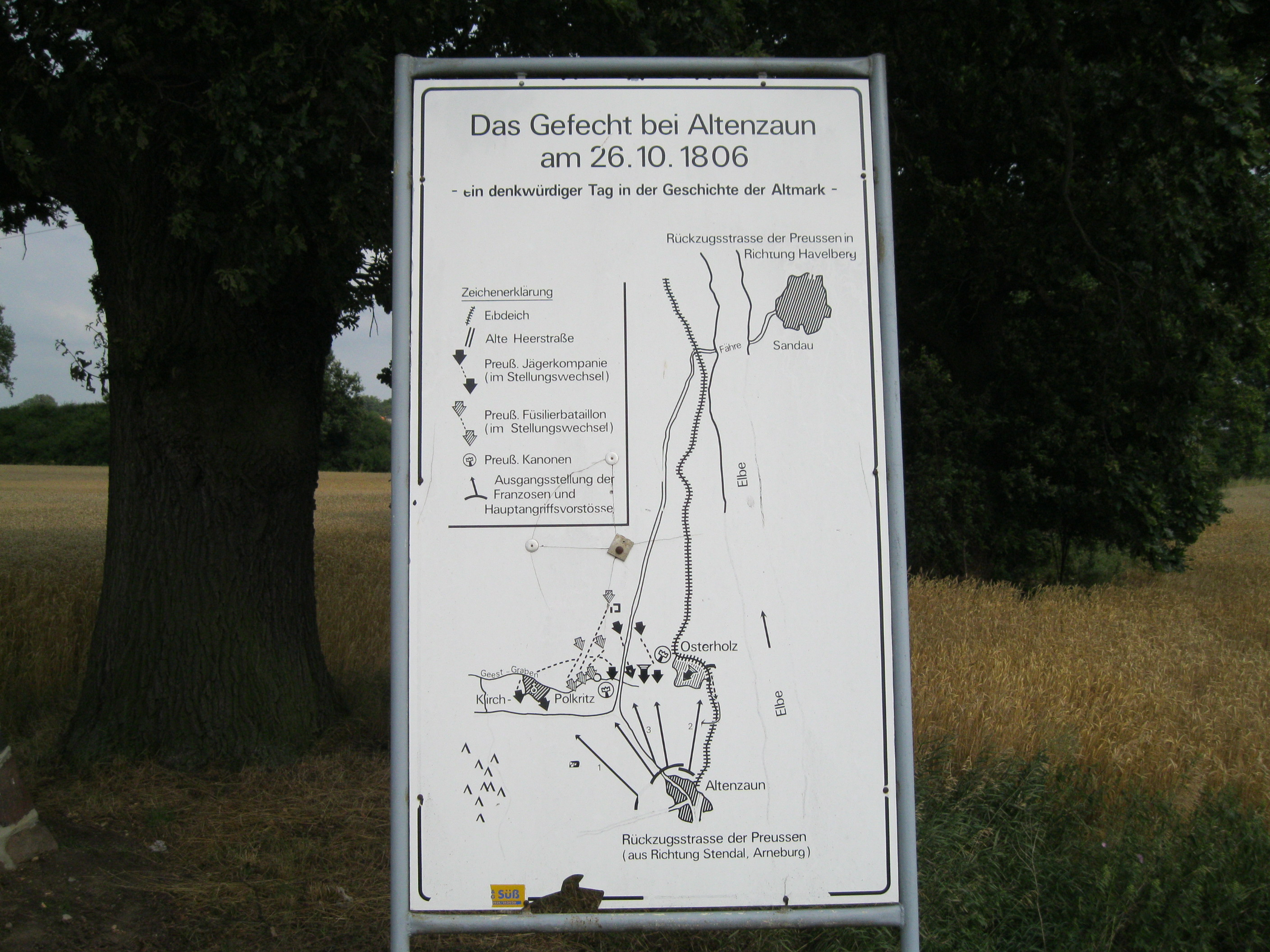 gefechtsverlauf